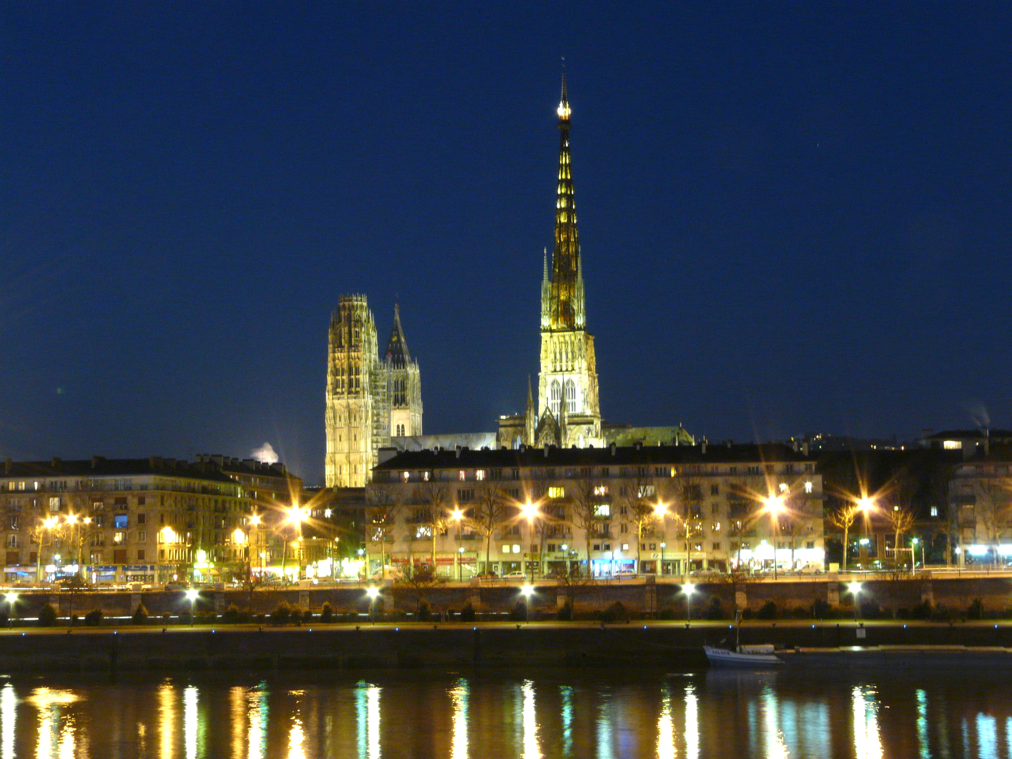 Rouen cathedral by night and the right bank of the Seine